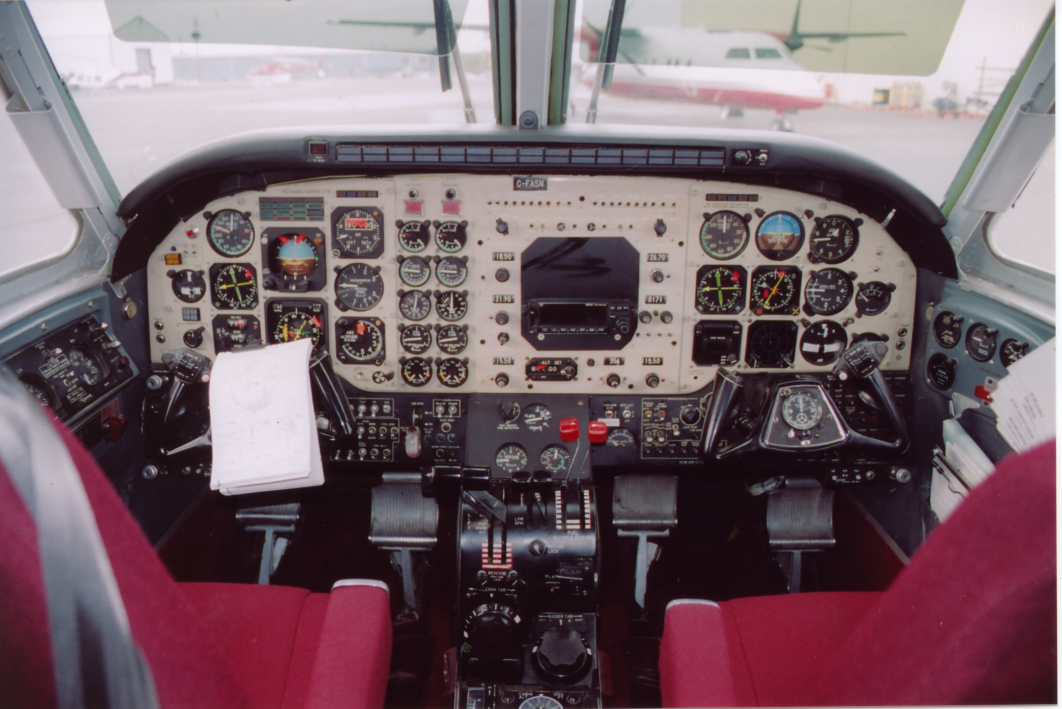 Instrument panel of a King Air 100.